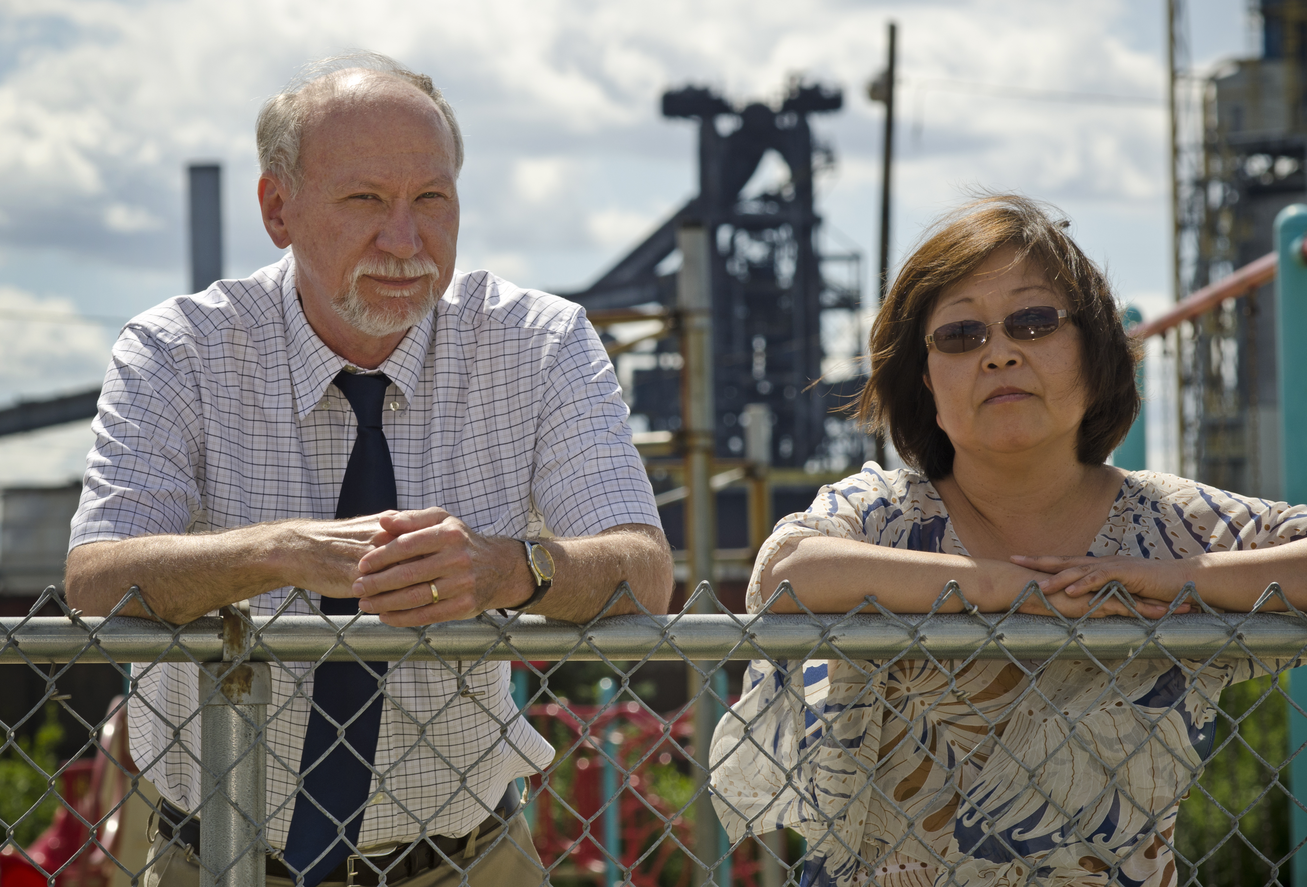 Paul Mohai with Byoung-Suk Kweon studying one of the Detroit area’s most polluted zip codes and correlations to student health and academic performance.